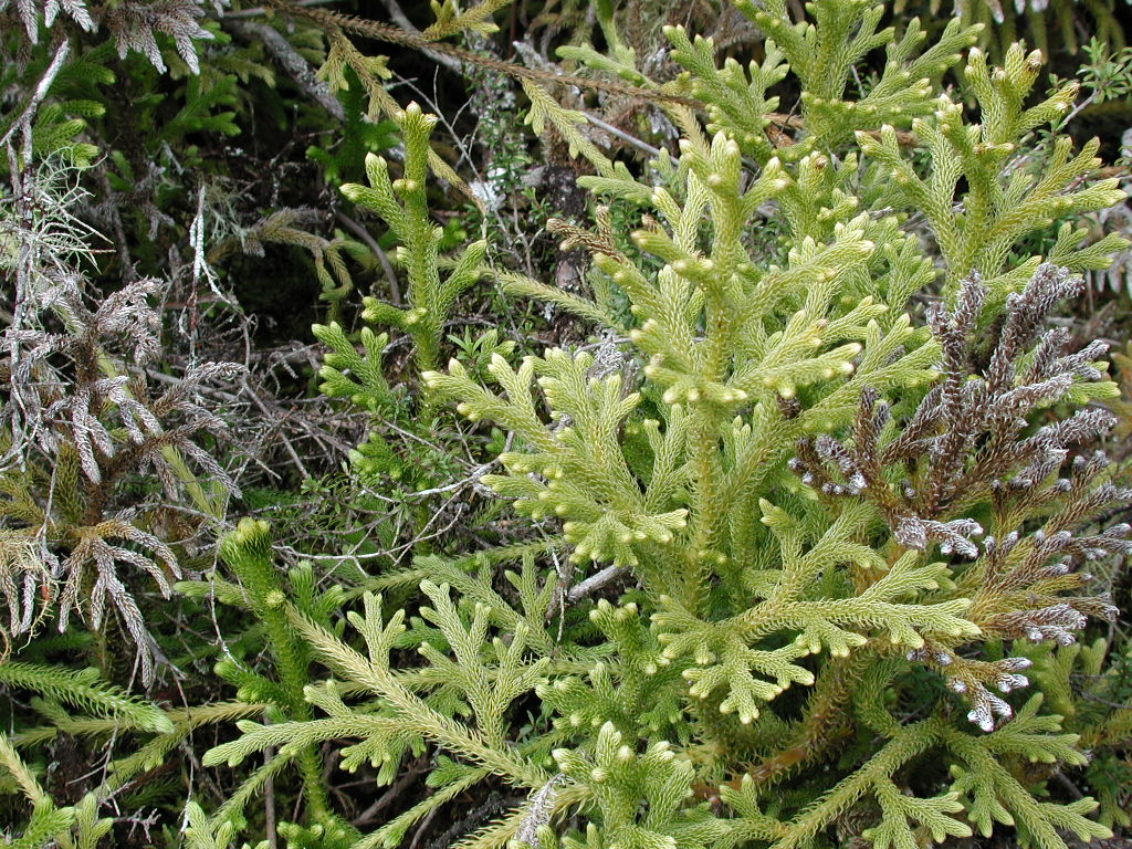 Lycopodium cernuum, also called arching clubmoss, growing in a geothermal area in New Zealand. The branching stems are about 5 mm in diameter.